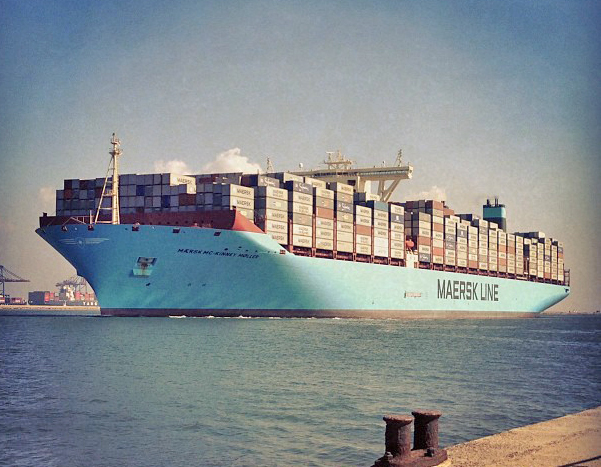 Mærsk Mc-Kinney Møller, the first Triple-E, passing Port Said in the Suez Canal on its maiden voyage.